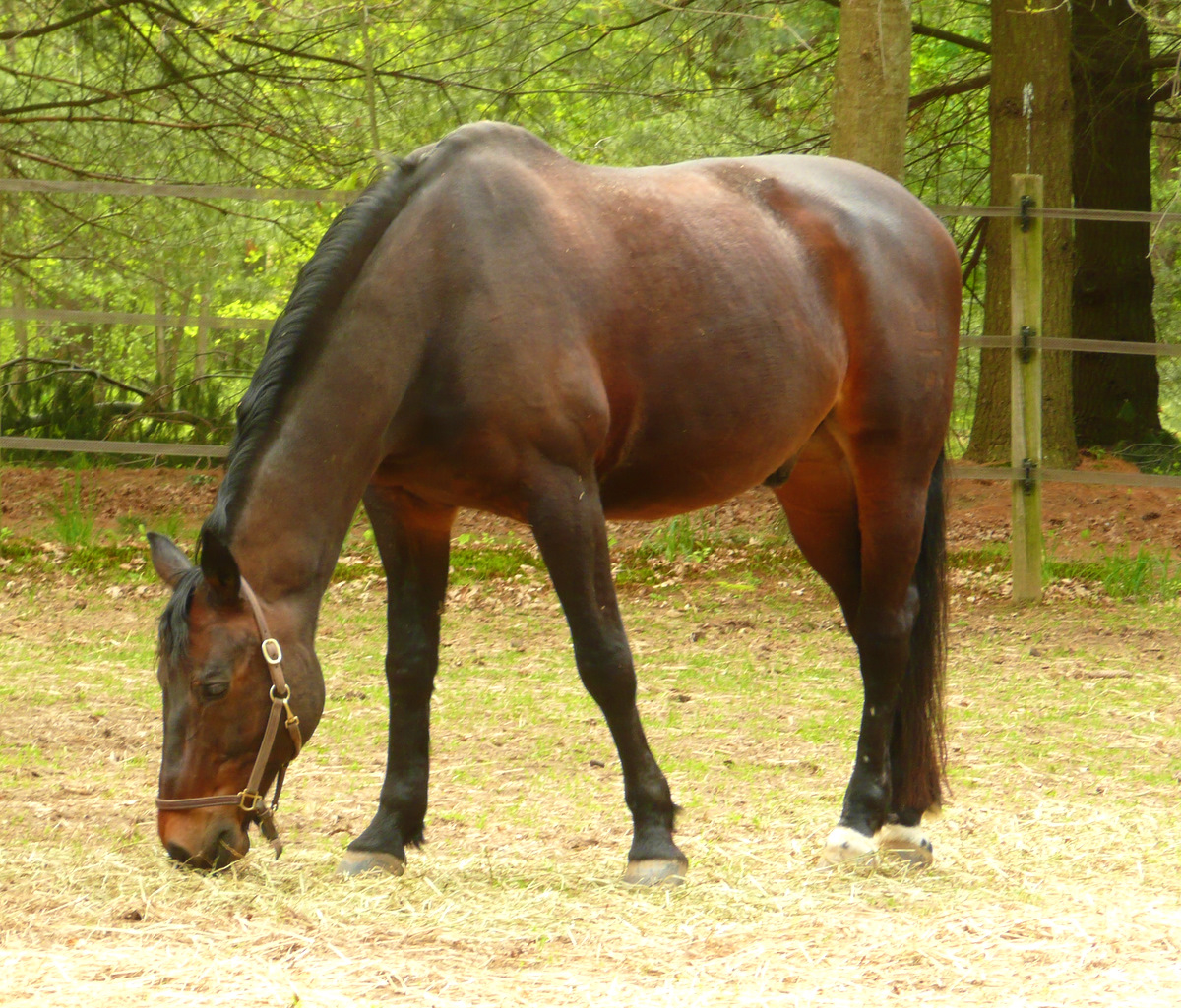 Danish Warmblood, with crown and wave brand visible.